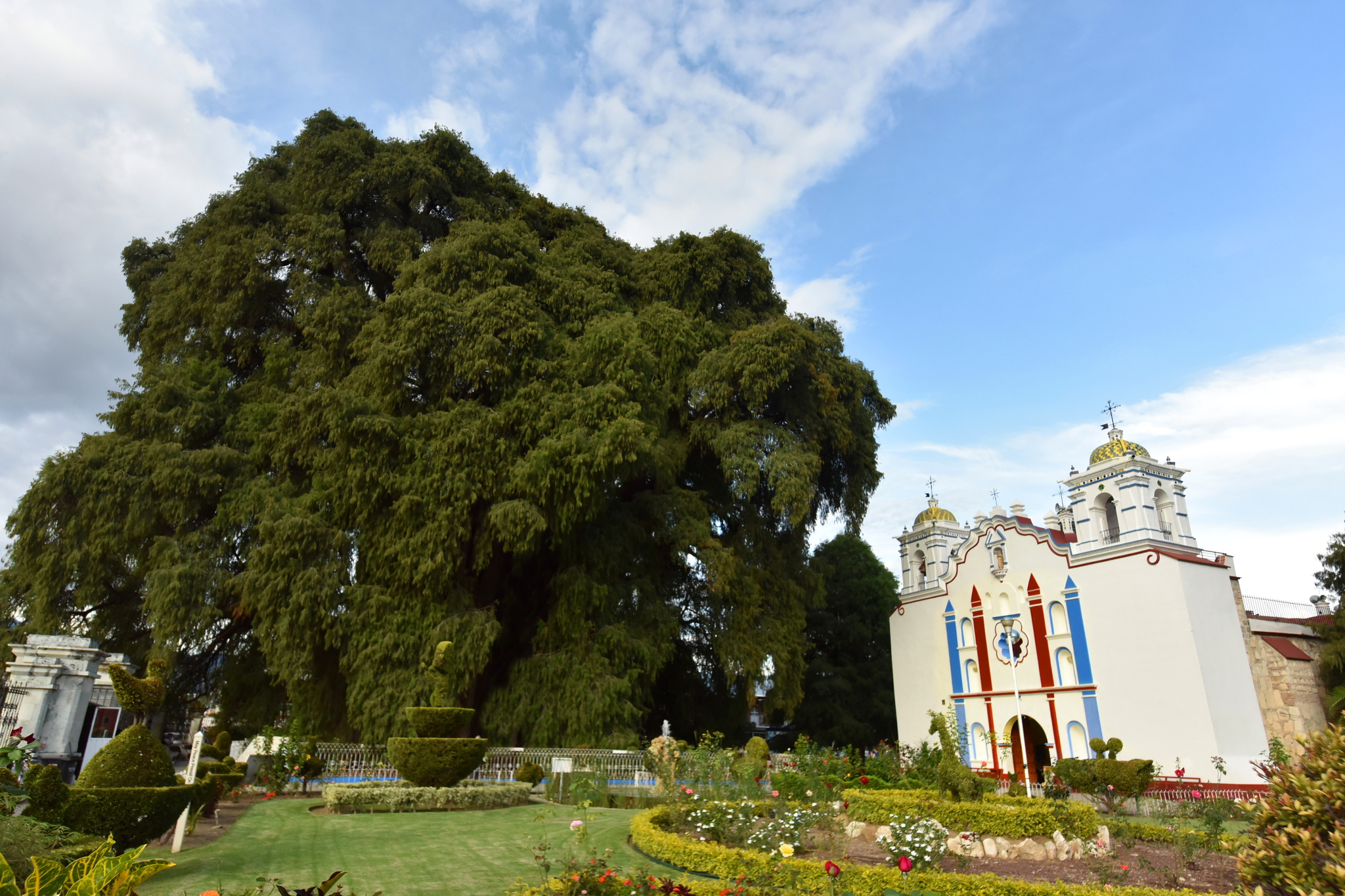 Arbol de Tule